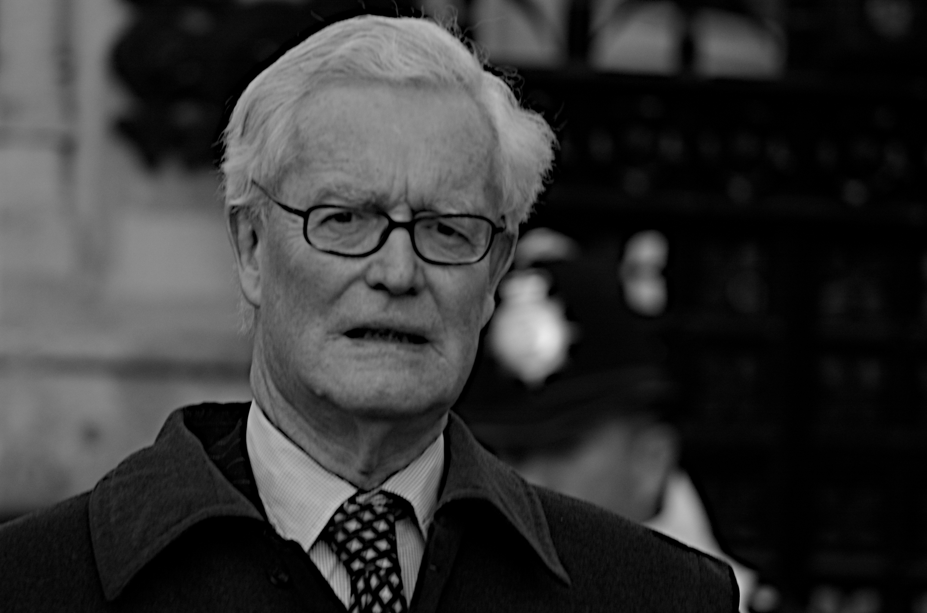 Douglas Hurd, British Conservative politician and former Home Secretary and Secretary of State for Foreign and Commonwealth Affairs.